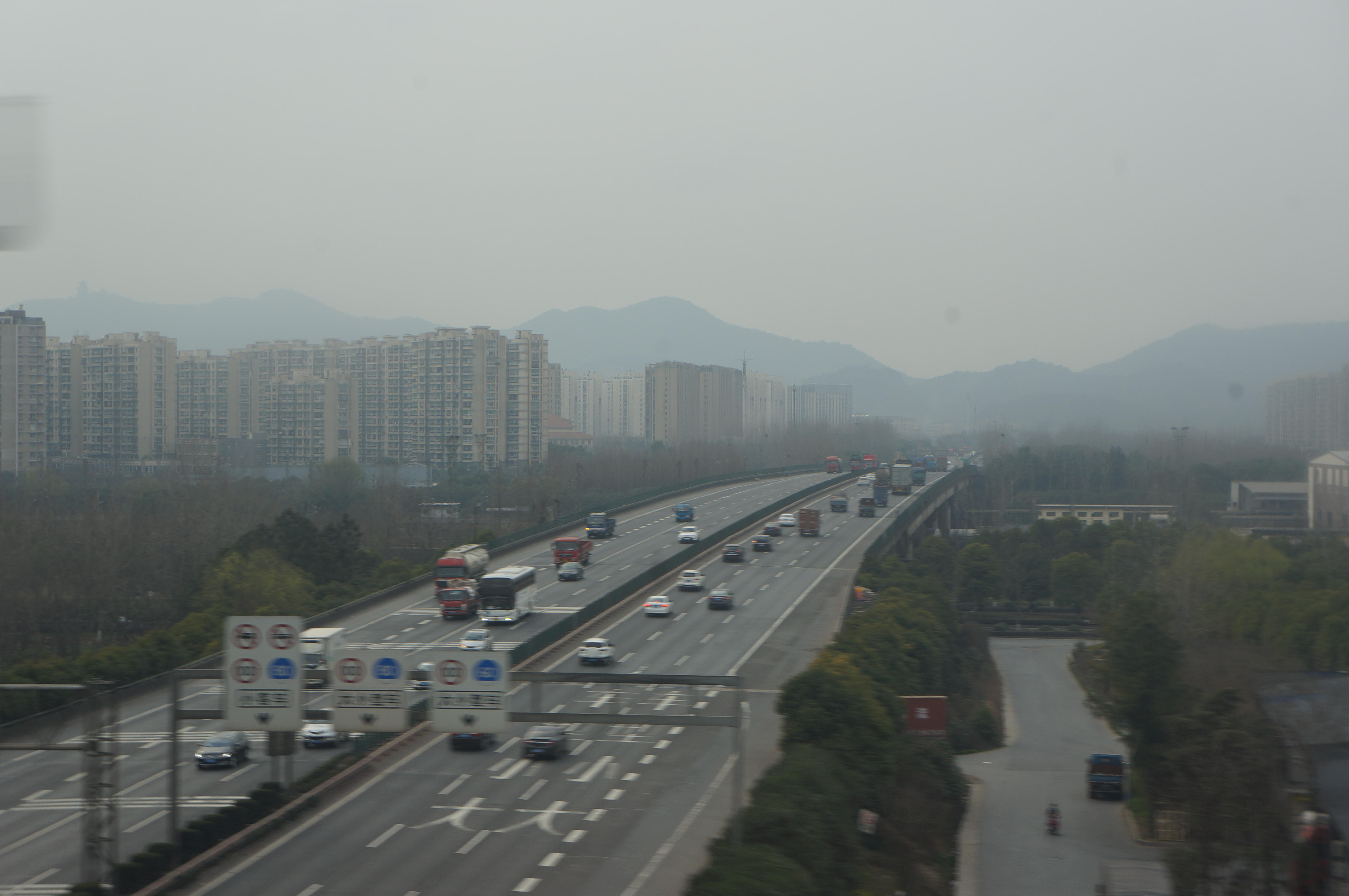 201703 Hangzhou Ring Expressway over Qiaosi Station